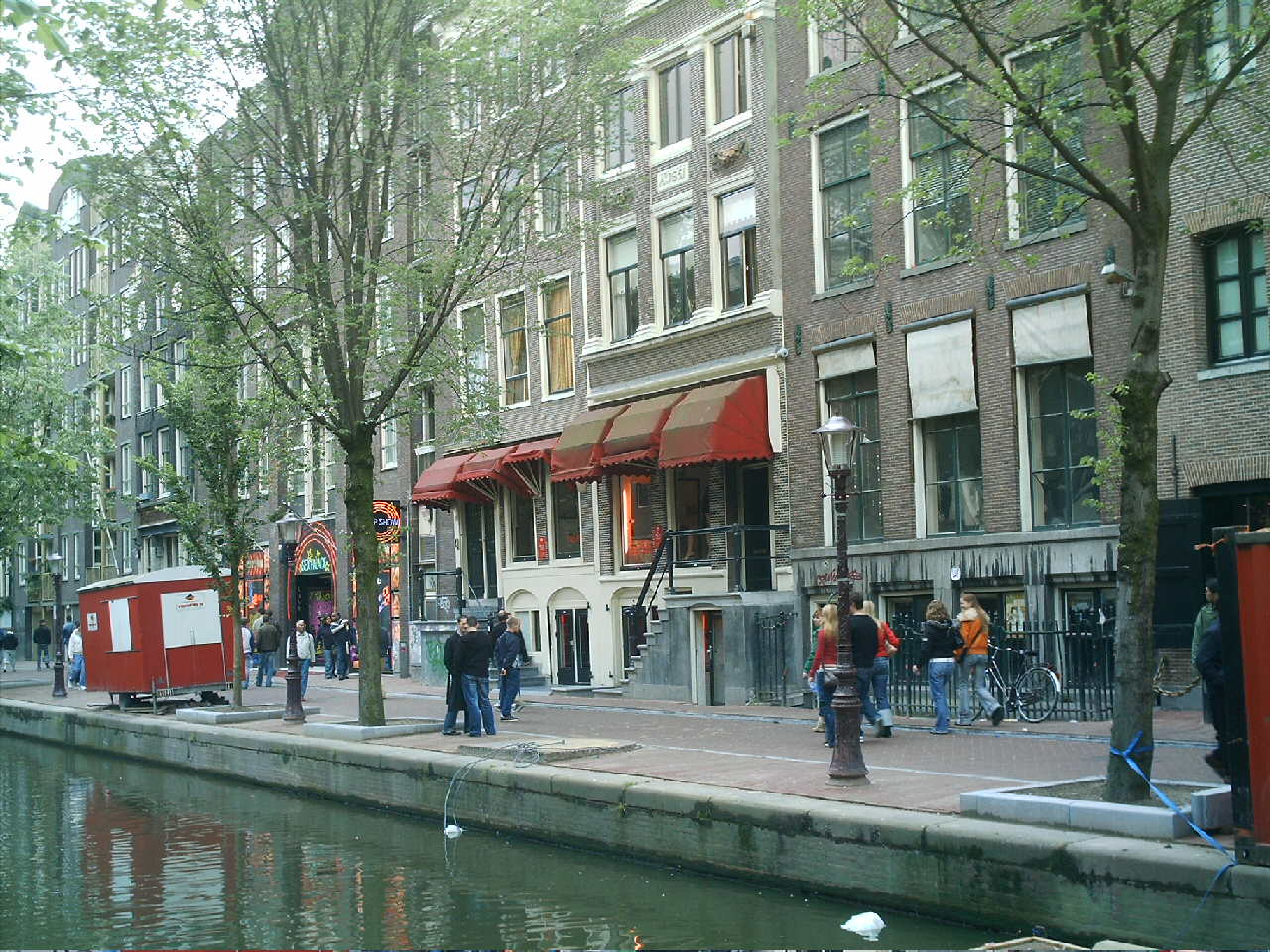 Amsterdam Red Light District June 2005 Cainebogdan